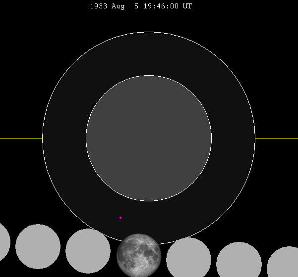 =lunar eclipse chart of moon's path through the earth's shadow. thumb